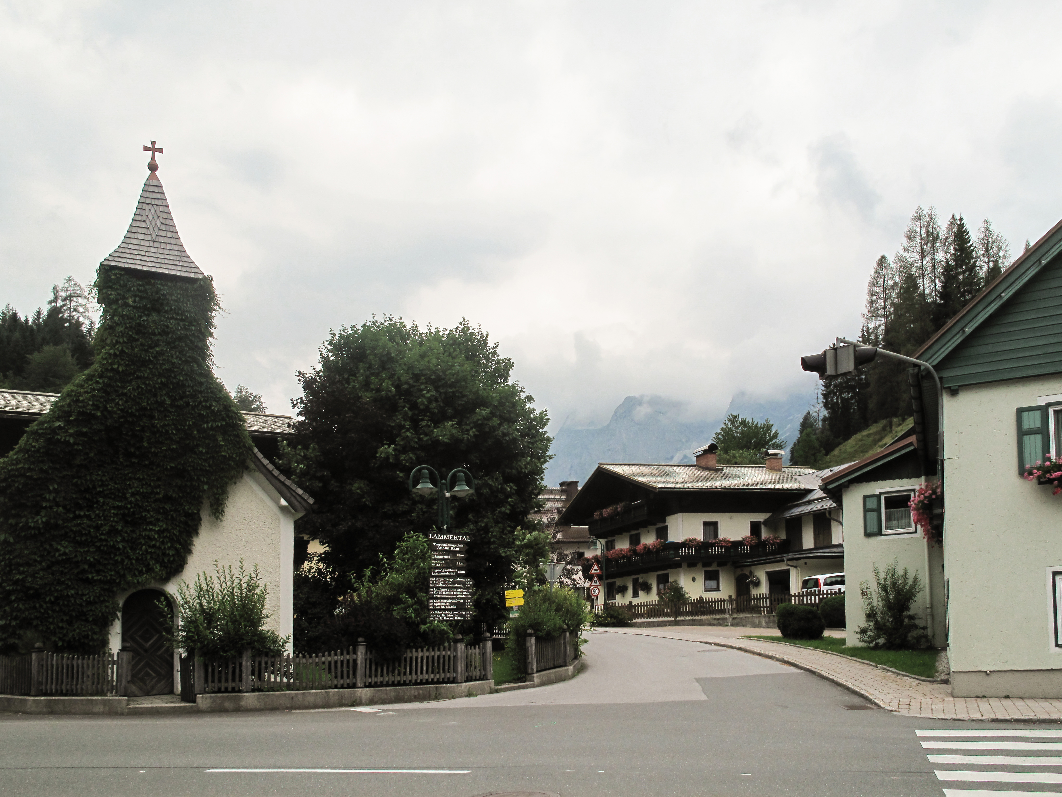 Lungótz, street with churchtower